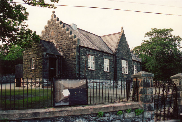 Maenan School Maenan School taken in August 1987 - just after it had been closed